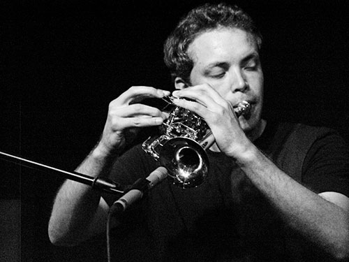 Eivind Lønning playing in Aarhus Denmark